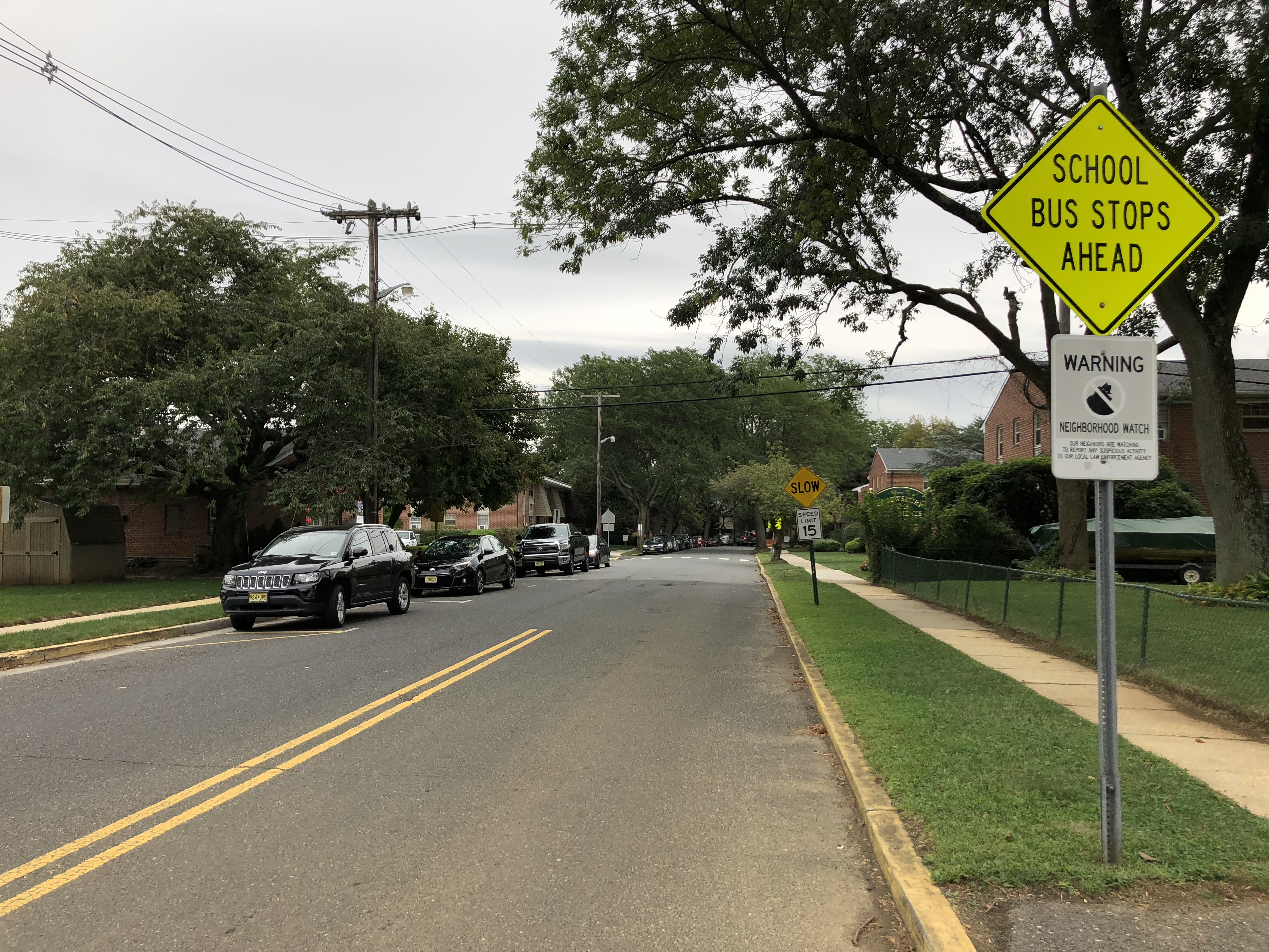 View south along Crawford Street at Barker Avenue in Shrewsbury Township, Monmouth County, New Jersey